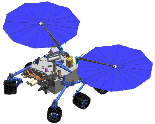 Depiction of the proposed Mars Astrobiology Explorer-Cacher (MAX-C)-Rover.